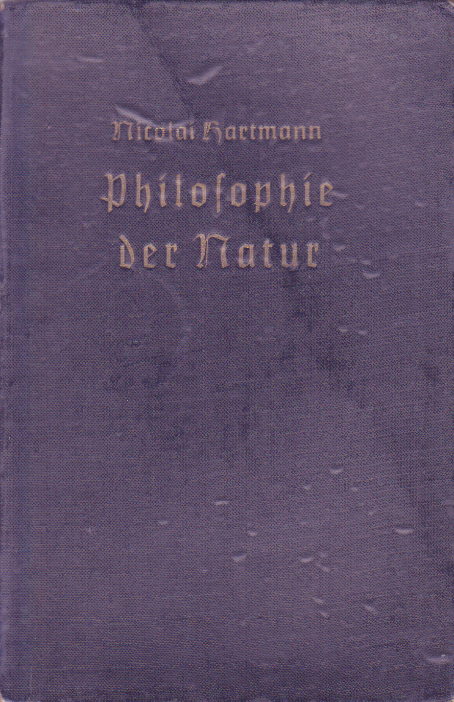 Cover from the first edition (1950) of Nikolai Hatmann's "Philosophie der Natur"